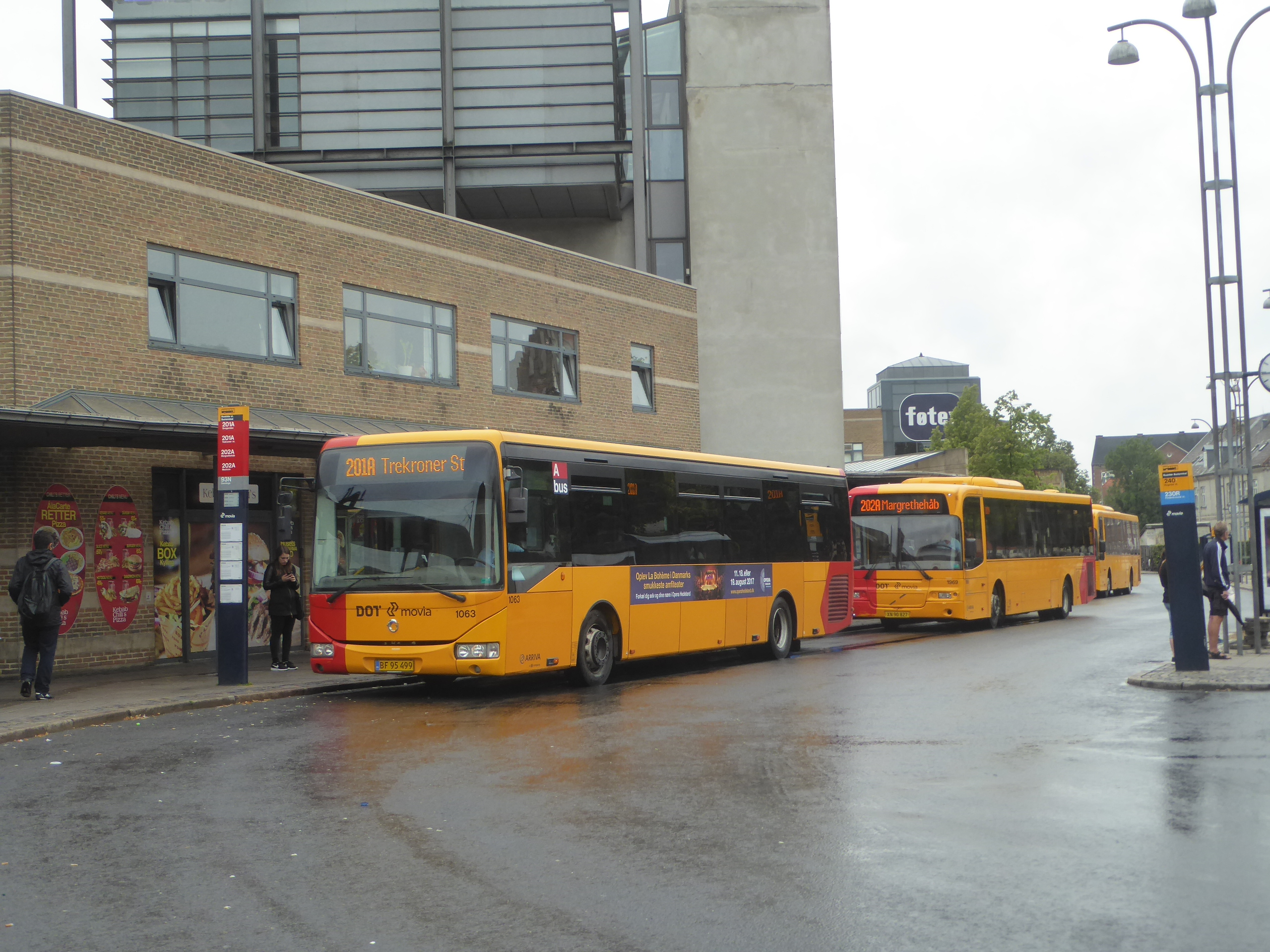 Movia bus line 201A and 202A at Roskilde Station in Denmark.